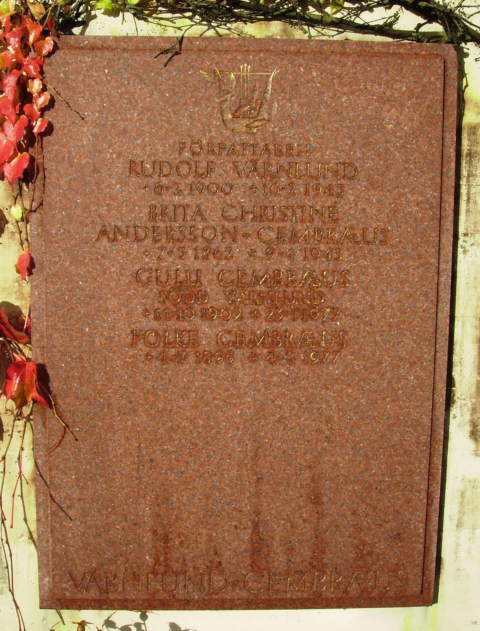 Picture of Rudolf Värnlund's grave at Skogskyrkogården in Stockholm